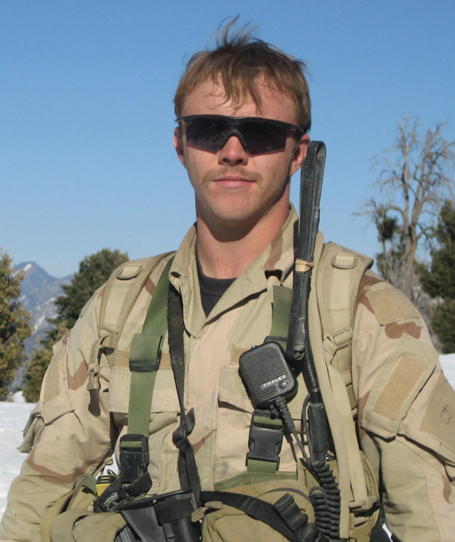 A personal photo of Staff Sgt. Robert J. Miller. Miller was posthumously awarded the Medal of Honor on Oct. 6 for his heroism and valor while serving in Afghanistan in January of 2008. To learn more, visit